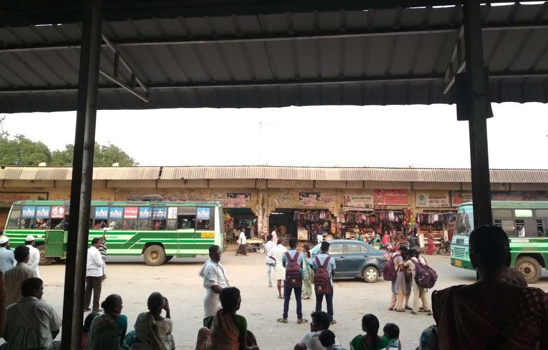 Chengam Bus stand